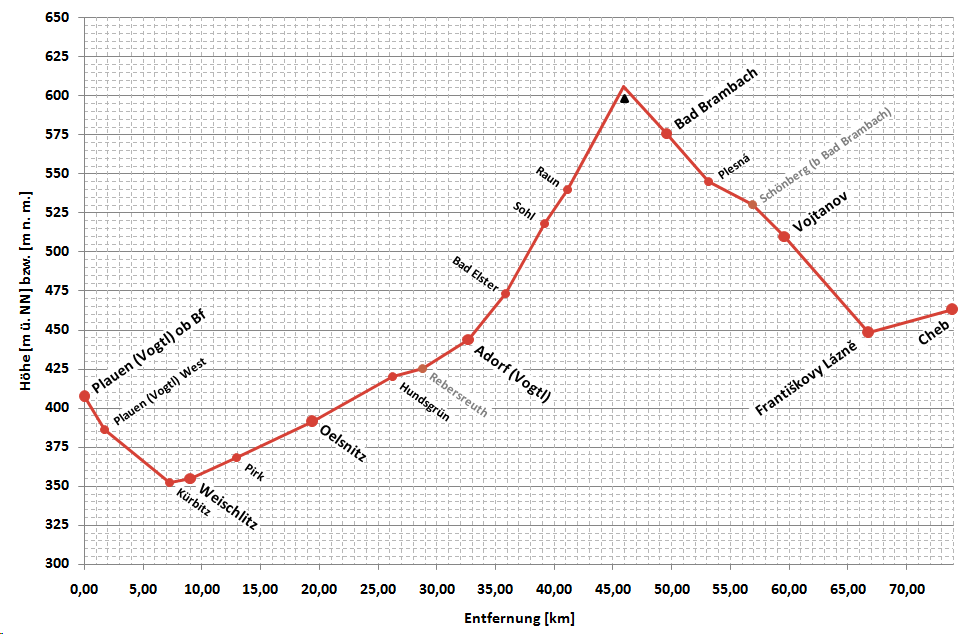 simplified altitude-profile of railway track Plauen–Cheb